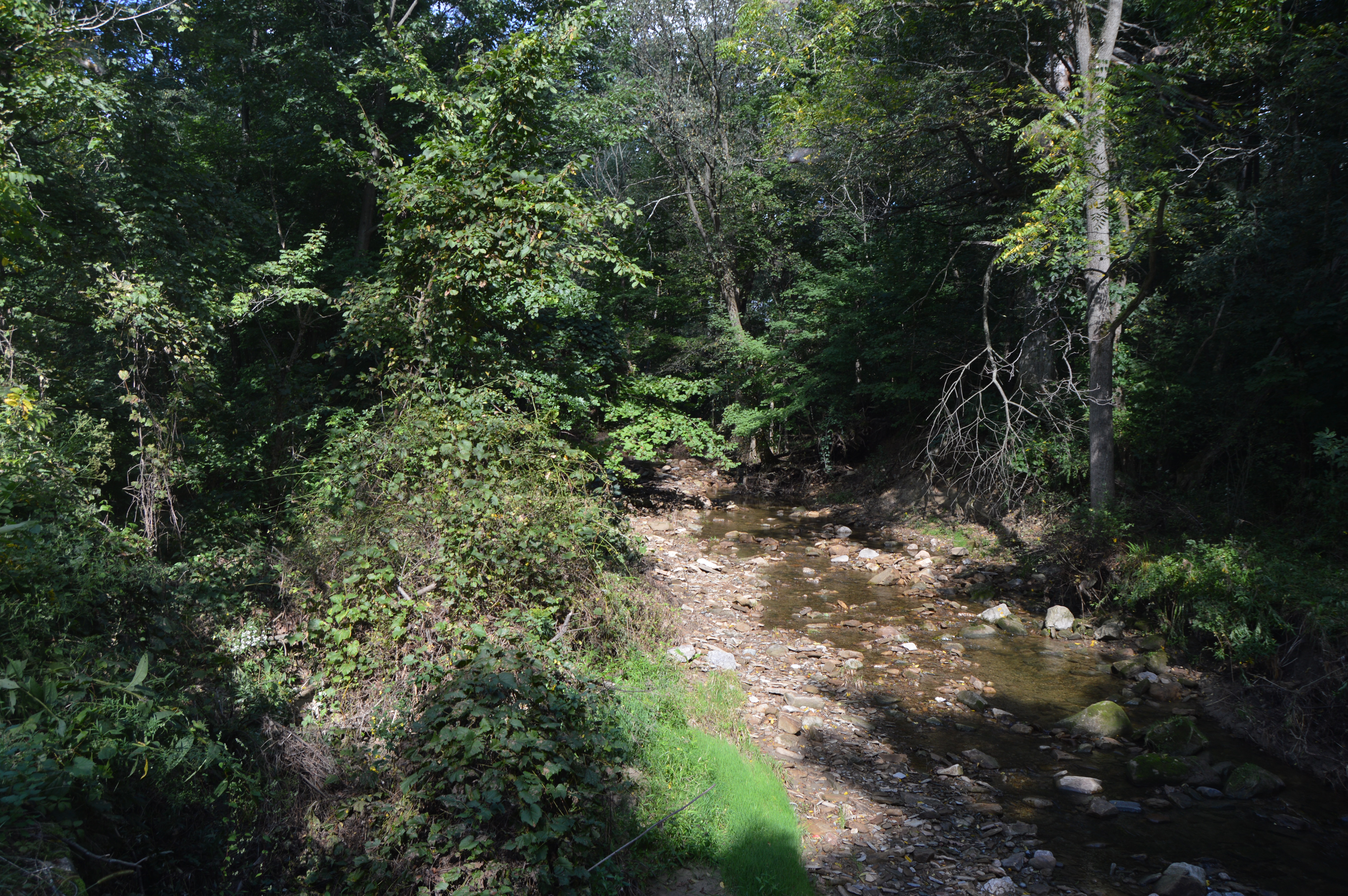 Looking along a small stream parallel to New Hamburg Road south of New Hamburg in Delaware Township, Mercer County, Pennsylvania, United States. This area is part of the New Hamburg Historical Area, a historic district that is listed on the National Register of Historic Places.